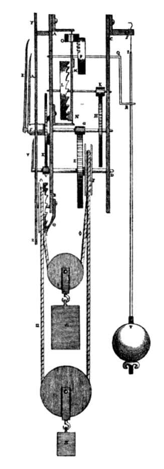 The first pendulum clock, invented by Dutch physicist Christiaan Huygens in 1657, and built by clockmaker Saloman Coster. This drawing is from Huygens' 1658 treatise on the clock, Horologium. The pendulum was driven by a verge escapement mechanism, so it had a very wide angle of swing compared to modern clocks, perhaps 80° to 90°. The clock was weight-driven, using an ingenious arrangement of two weights linked by a loop of cord. In order to "wind" the clock, the larger weight was simply lifted to the top. Alterations to image: removed caption.